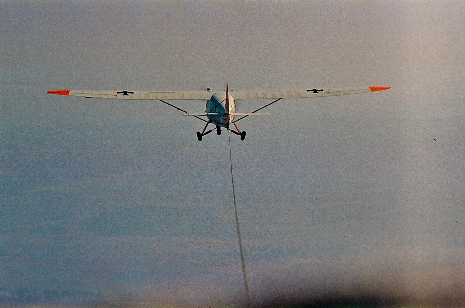 Pützer Elster B (Luftwaffe 97+05) used as tow-plane from Pferdsfeld air base (EDSP) (closed 1997).